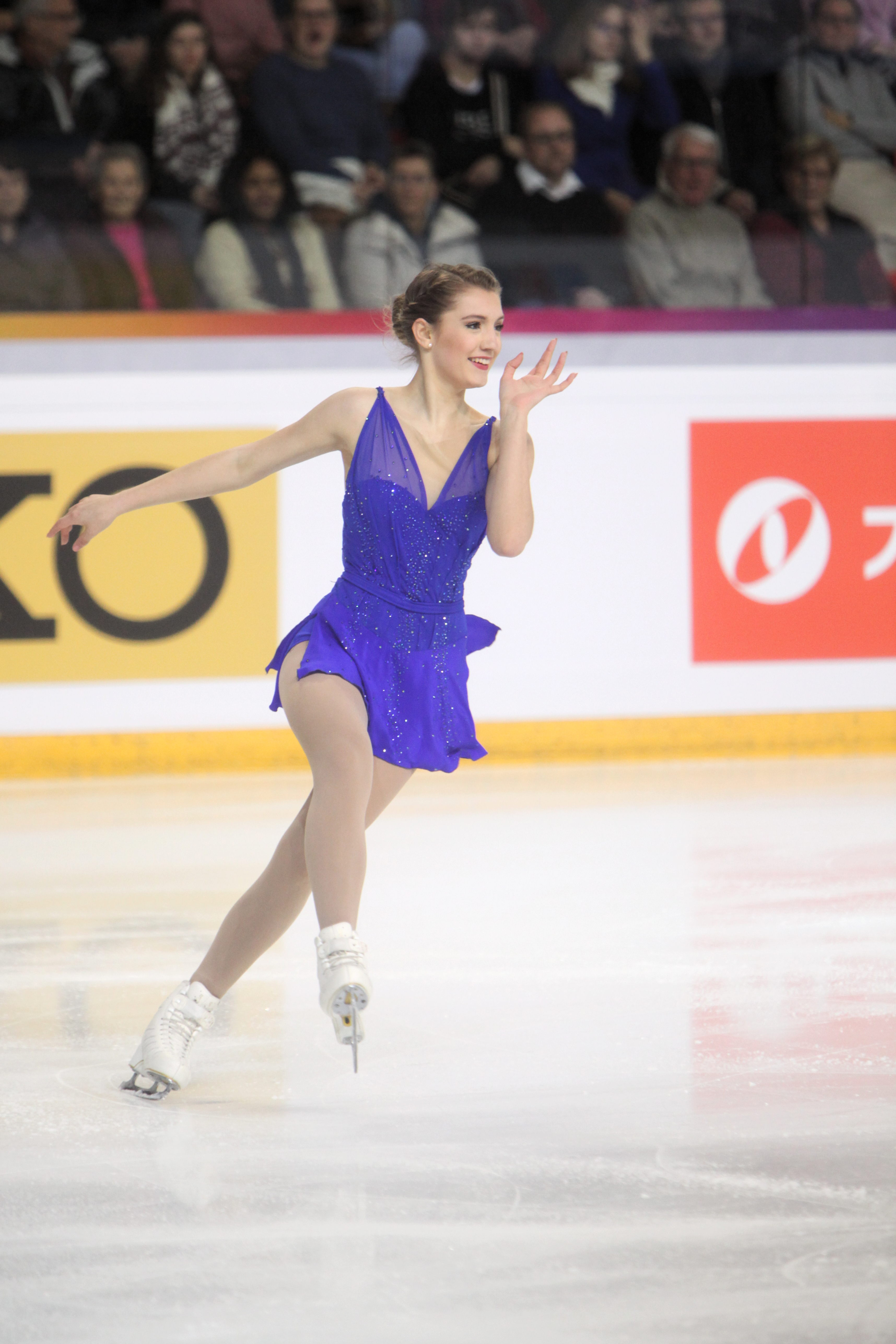 Alexia Paganini during the Ladies Free Skating at the Internationaux de France de Patinage 2018.